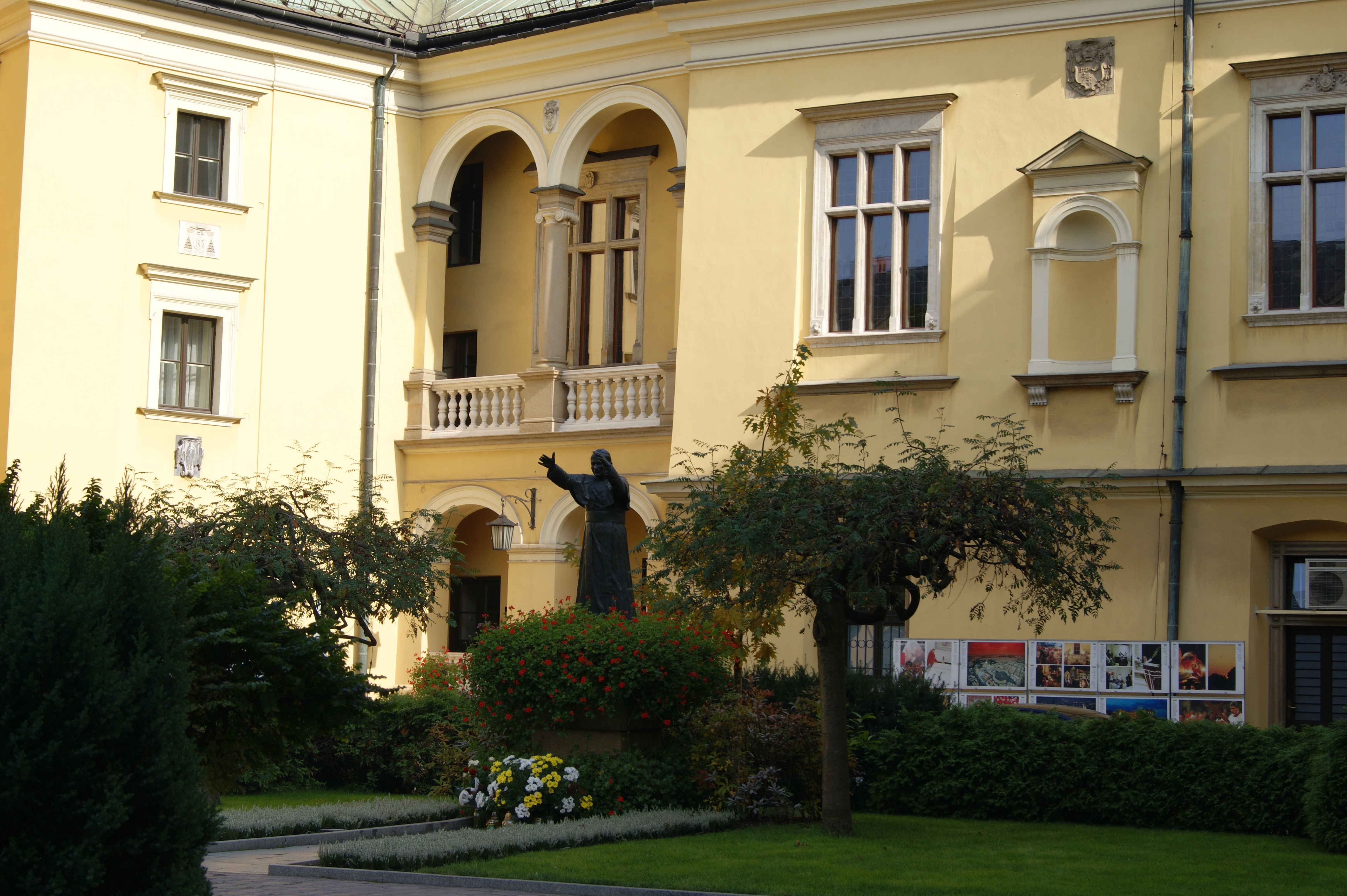 Pope John Paul II monument (general view),Krakow Archbishop's Palace courtyard, 3 Franciszkanska street,Old Town, Krakow, Poland